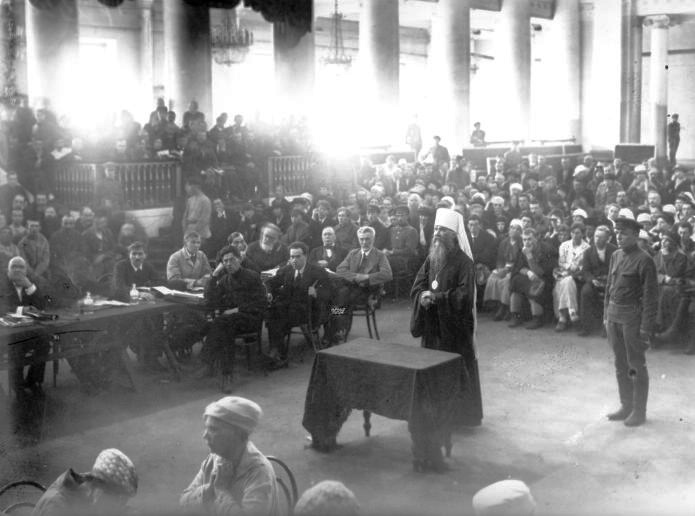 Veniamin (Kazansky), Russian Orthodox Metropolitan of Petrograd and Gdov in 1917-1922, at the session of the Petrograd Revolutionary Provincial Tribunal facing charges of "Counter Revolutionary Agitation" for his stand against the wholescale requisitioning of church valuables by the Bolsheviks. He was charged and executed by firing squad by the decision of the Tribunal in 1922.